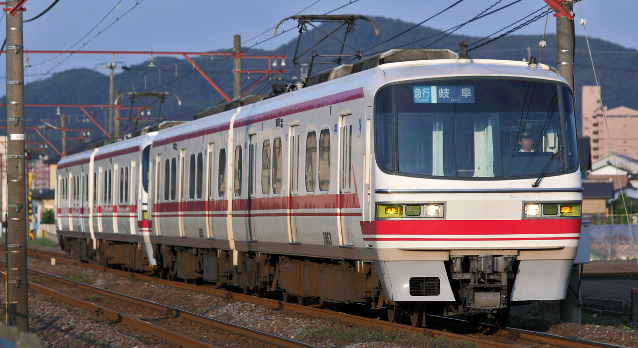 Meitetsu 1850 series EMU set 1853 with a 1800 series EMU on an express service between Unumajyuku and Haba stations